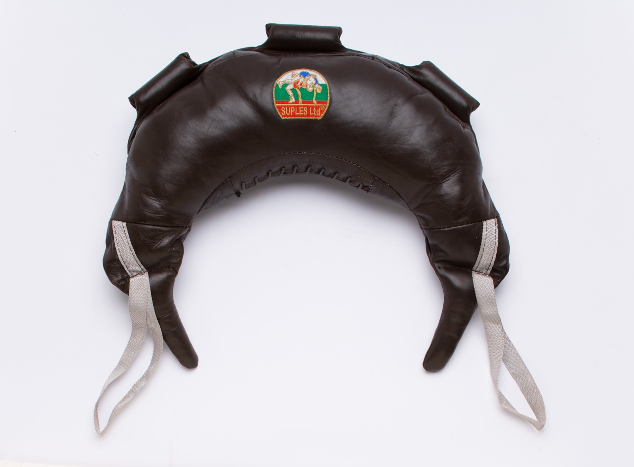 A photo of a Bulgarian Bag